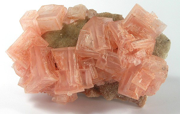 Halite, Nahcolite Locality: Searles Lake, San Bernardino County, California, USA (Locality at ) Size: 8.8 x 4.6 x 4.6 cm. Okay, halite is salt, but for one thing, it is just as legitimate a mineral as any other, even if you CAN eat it (not this though - it contains bacteria so don’t lick it!). This batch of gorgeous halite specimens was mined last year in California, and they are REALLY distinctive. Look at the amazingly fine structure of the crystals (to 2.3 cm) and beautiful bright pink color! But more than that, they have this wonderful contrast with a uniquely new matrix covered with minute nahcolite. Bottom line: it is just a plain stunningly pretty mineral specimen from a recent find.